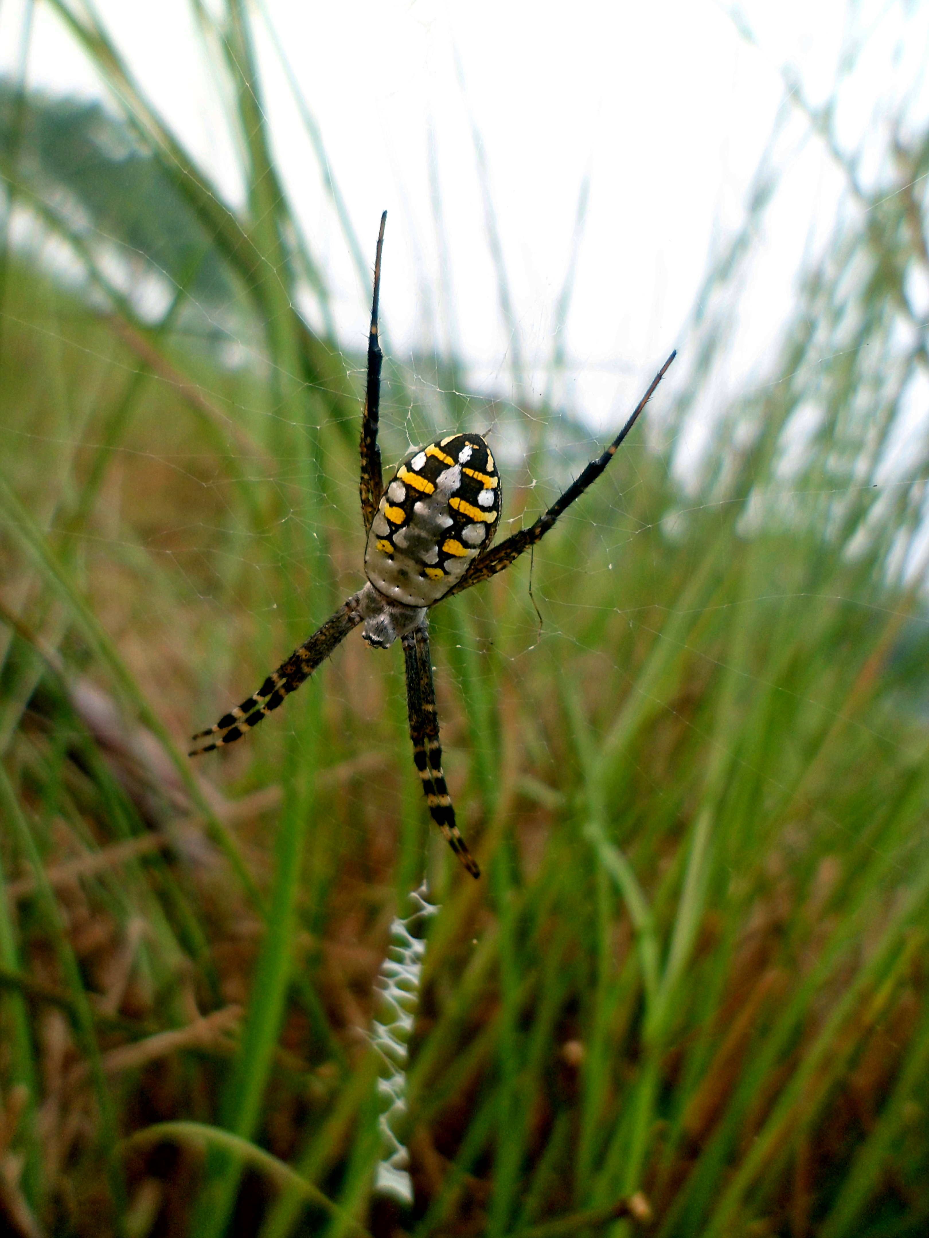 spider